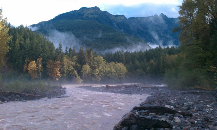 Glacier Creek (foreground) joining the North Fork of the Nooksack, Church Mountain in the background.